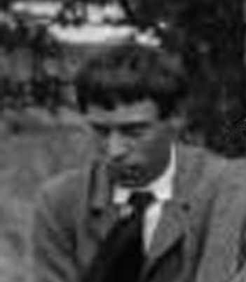 Actor Louis Jouvet in 1913